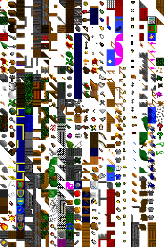 Tile set for an old fashioned computer role playing game in the style of Ultima VI.